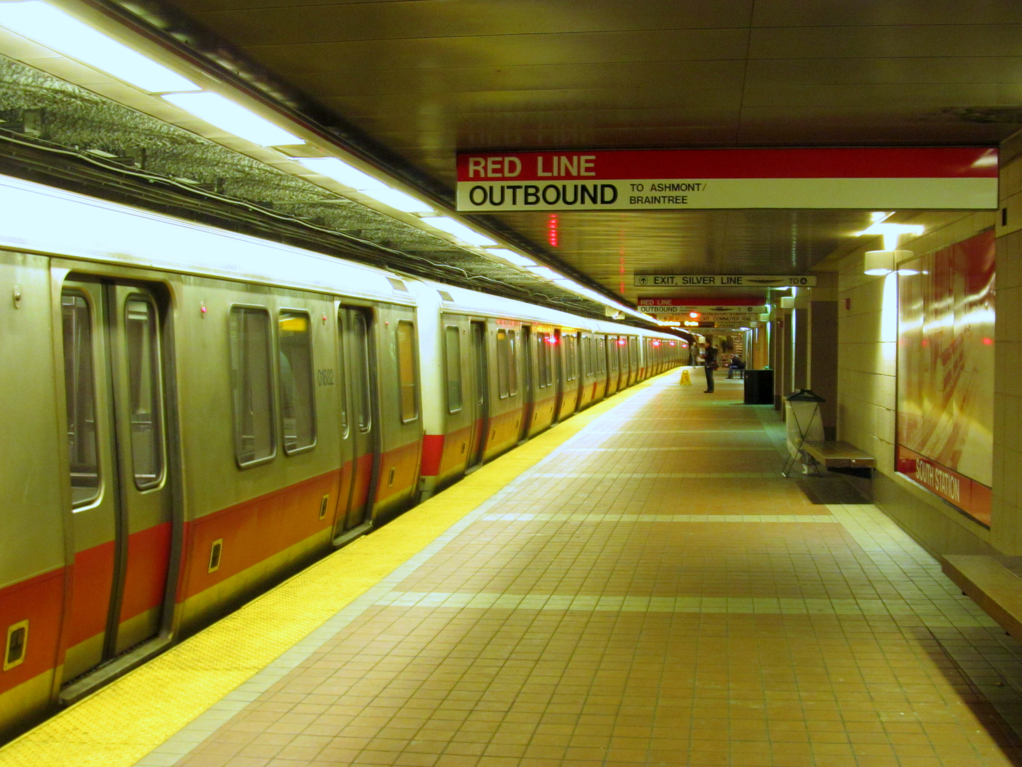 A Red Line train at the outbound (southbound) platform at South Station